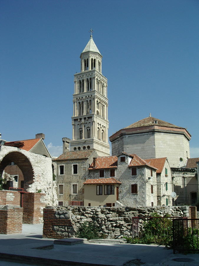 Belltower in Split, Croatia